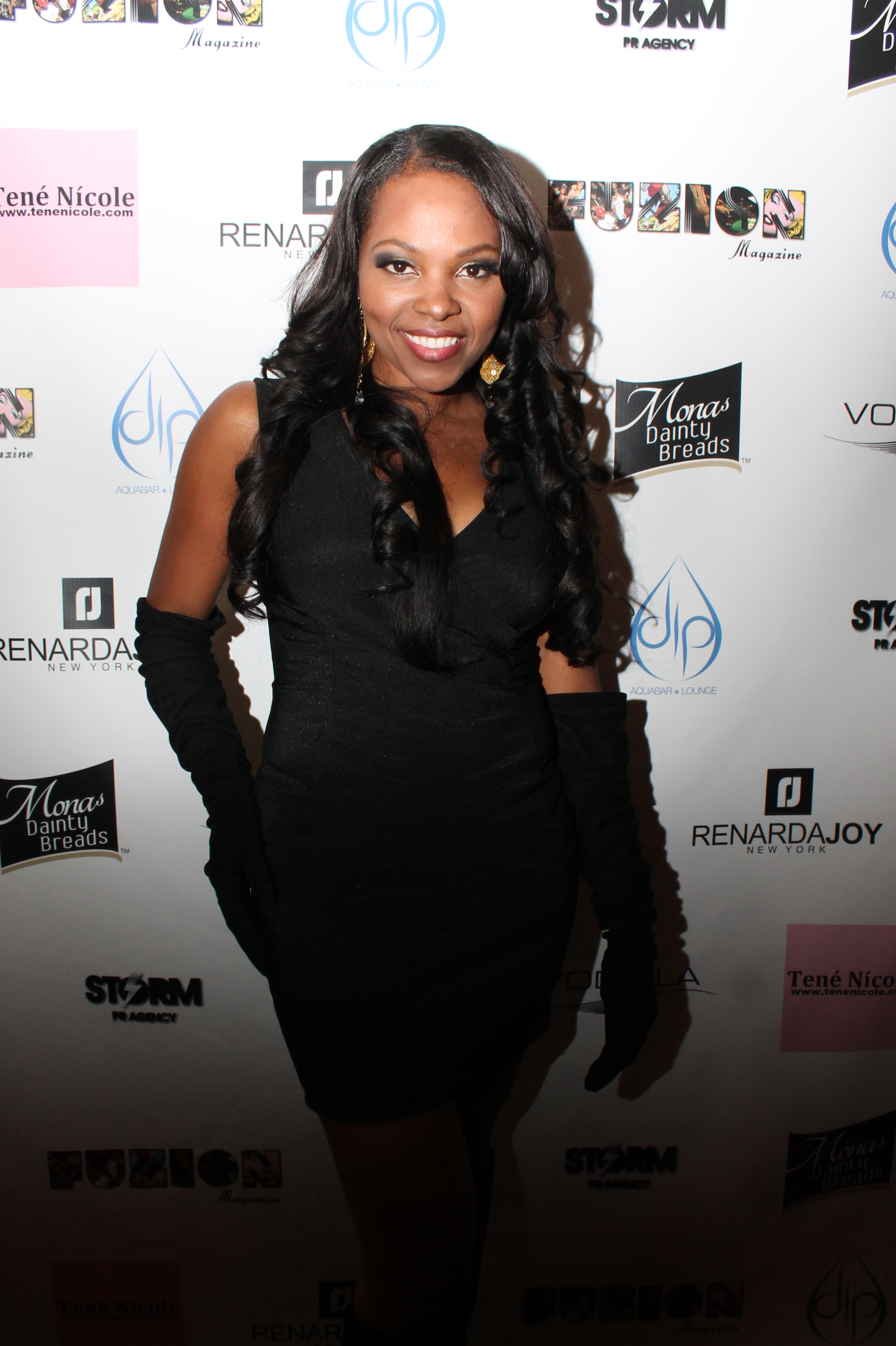 Kenya Bell at Fuzion Magazine event - 11.19.12